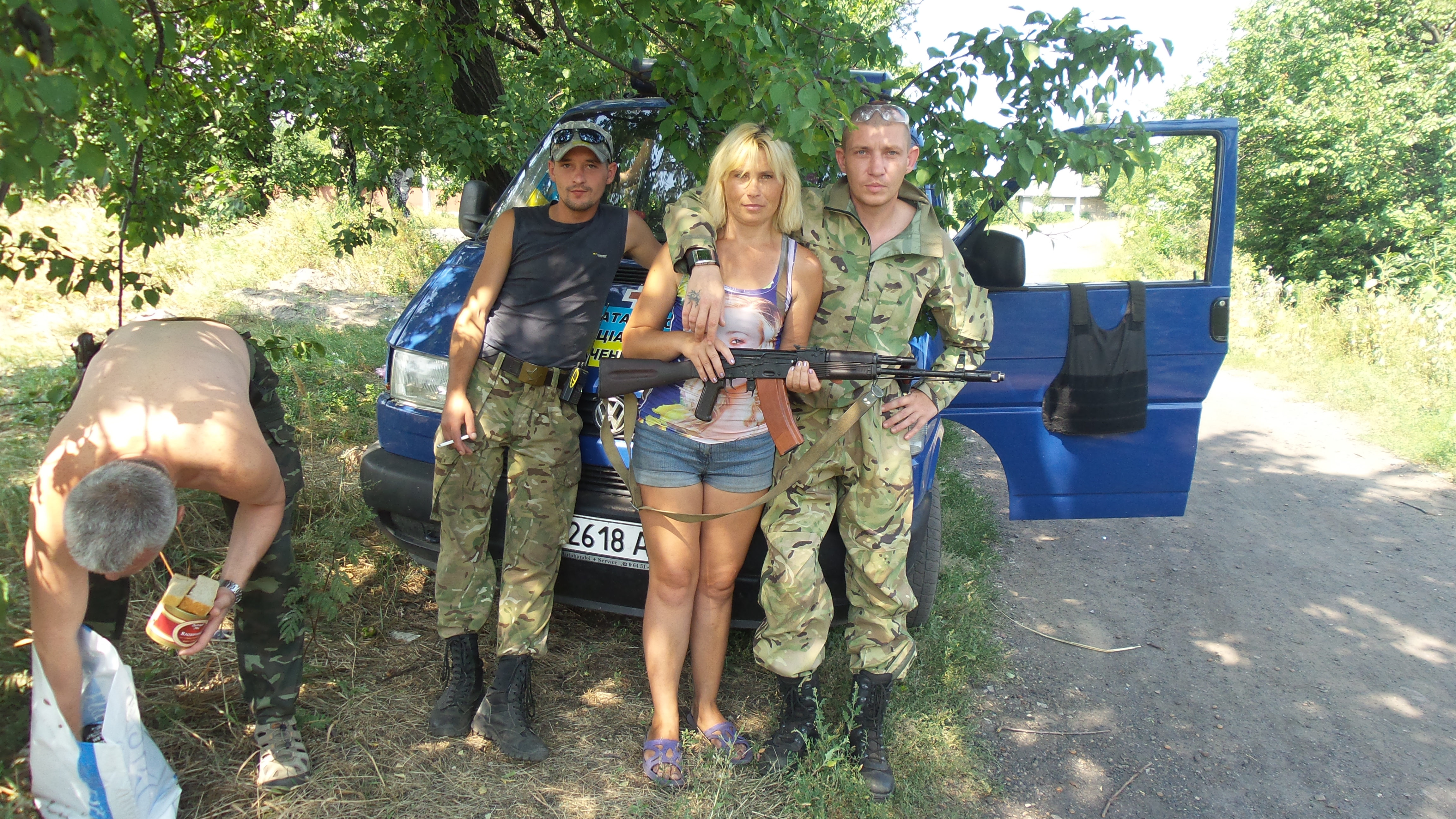 Battalion "Donbas" in Popasna, Lugansk region